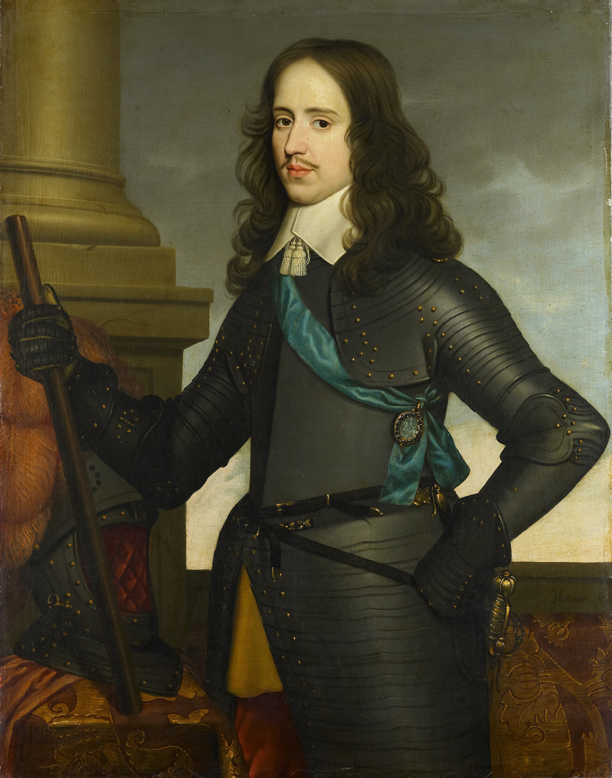 Part of a series, together with File:Workshop of Michiel Jansz. van Mierevelt 005.jpg, File:School of Michiel Jansz. van Mierevelt 001.jpg and File:Frederik Hendrik by Michiel Jansz van Mierevelt.jpg.